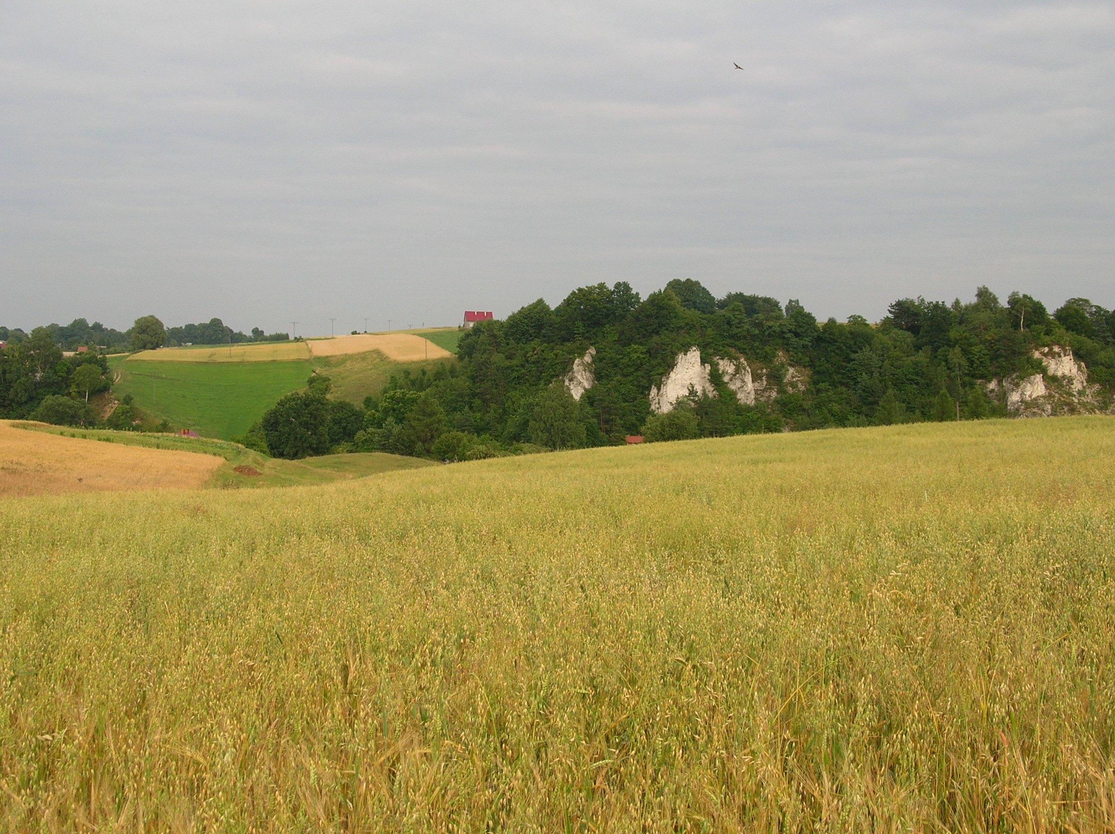 Glanów, Jurassic rocks